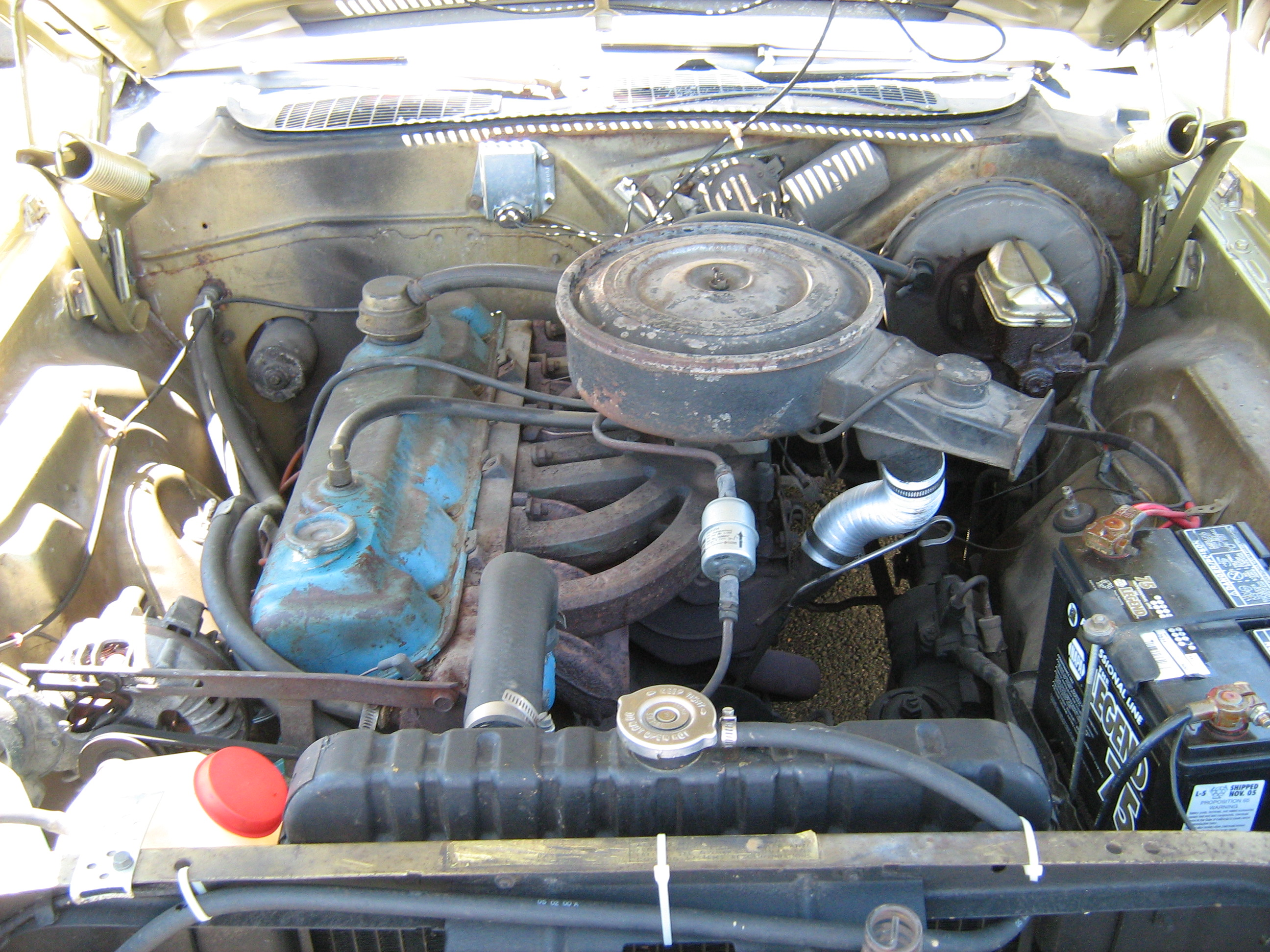 Dodge Challenger convertible with its original slant-six engine. An economy version of the "pony car".